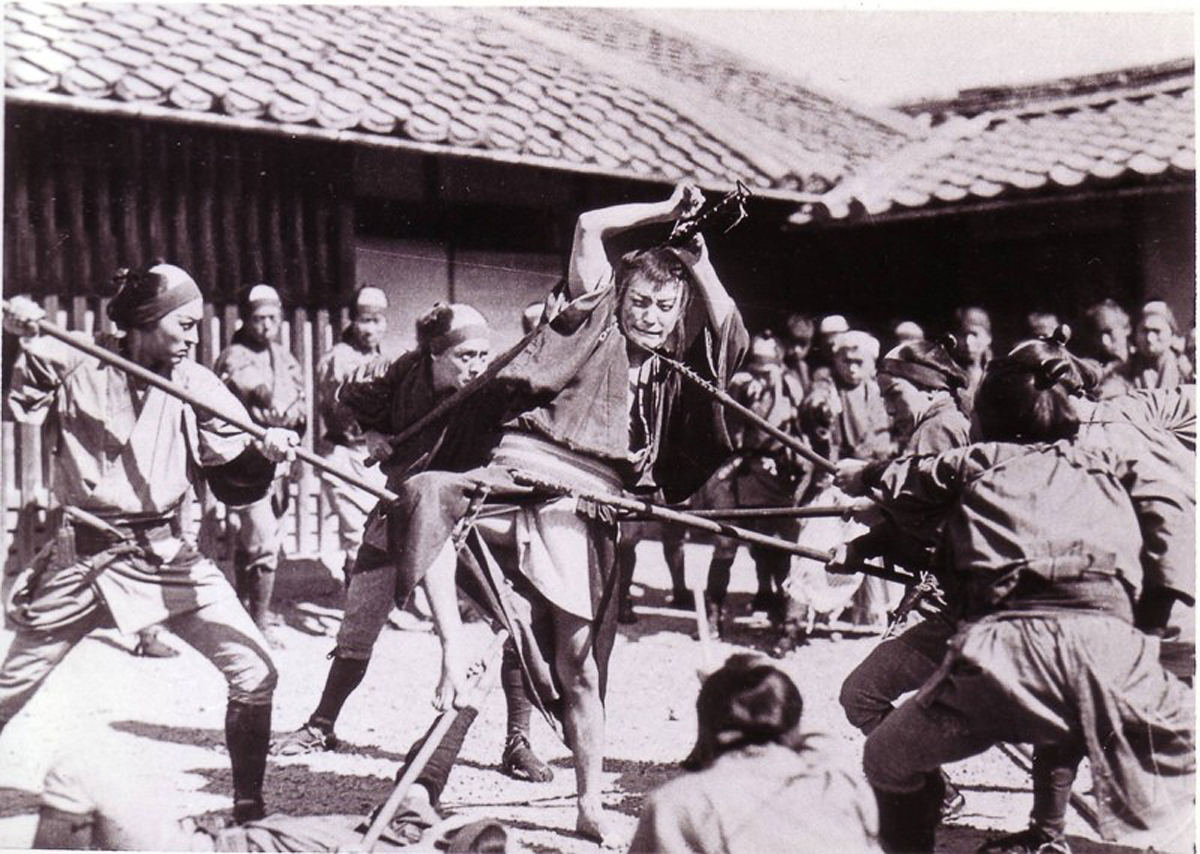 Orochi